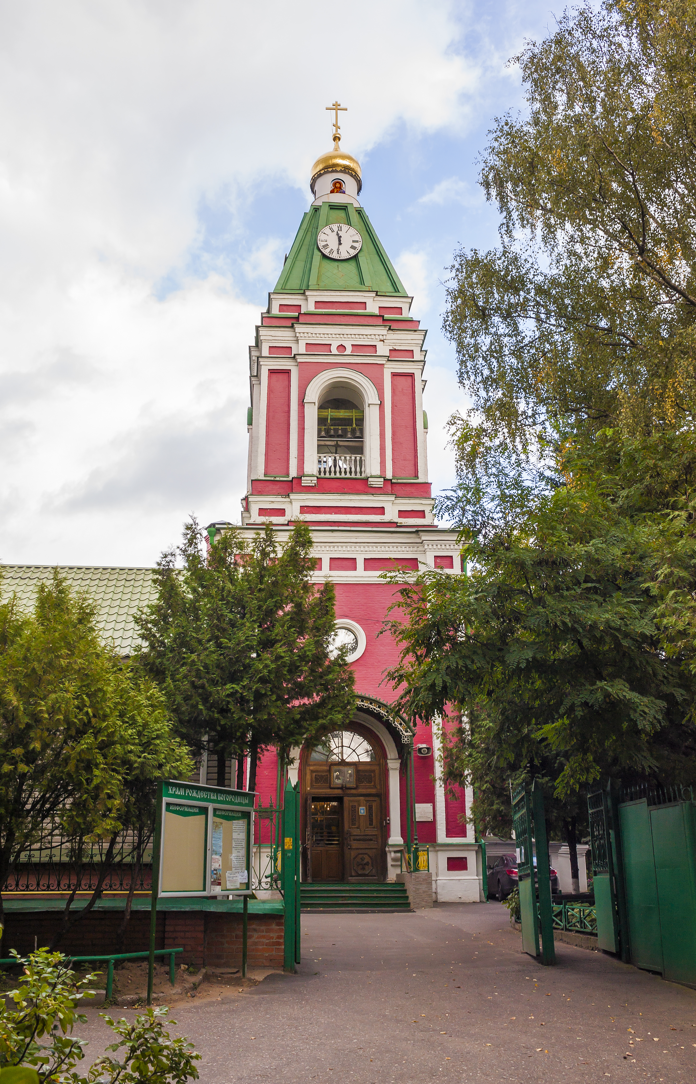 Church of the Nativity of the Blessed Virgin: Trubetskaya street, d.52-d, Nikolskoye-Troubetzkoy, Balashikha, Moscow region